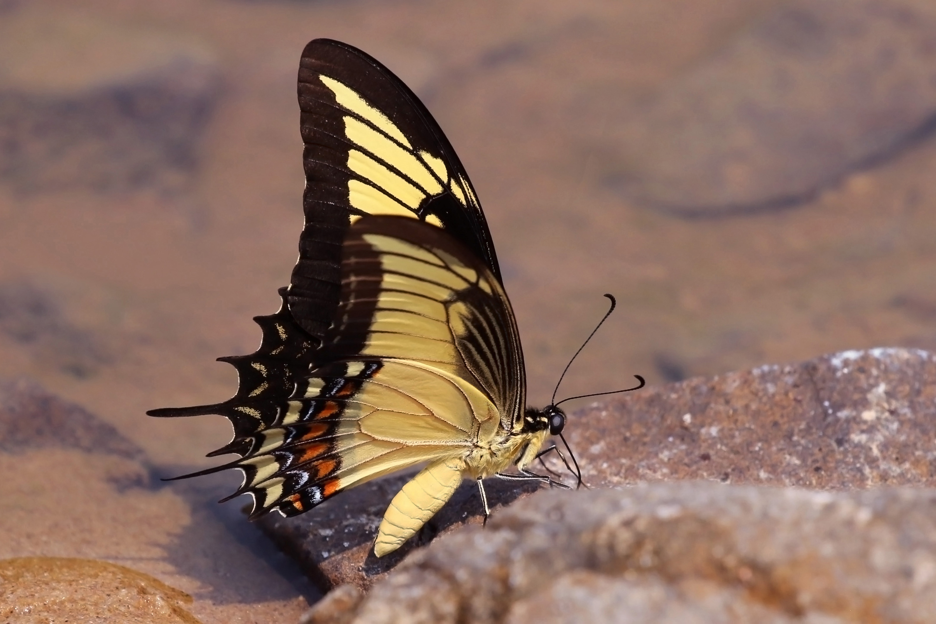 Citrus (Androgeus) swallowtail (Heraclides androgeus), Cristalino River, Southern Amazon, Brazil